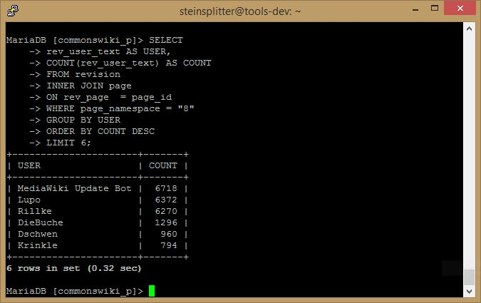 A executed sql query on toolslabs .